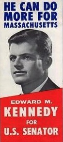 Edward M. Kennedy for U.S. Senato